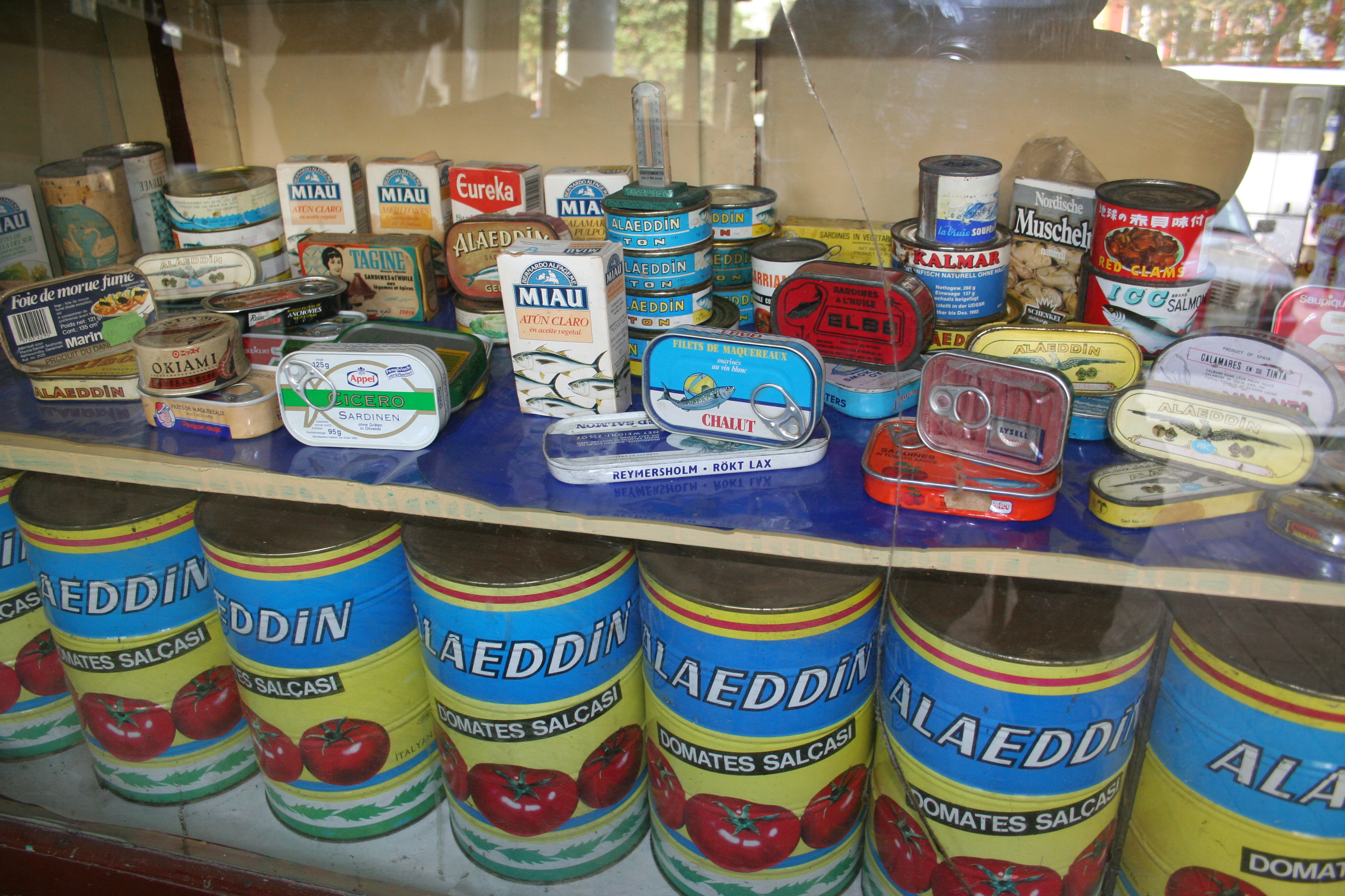 Can collection of Alâeddin Konserve, Gelibolu, Turkey.